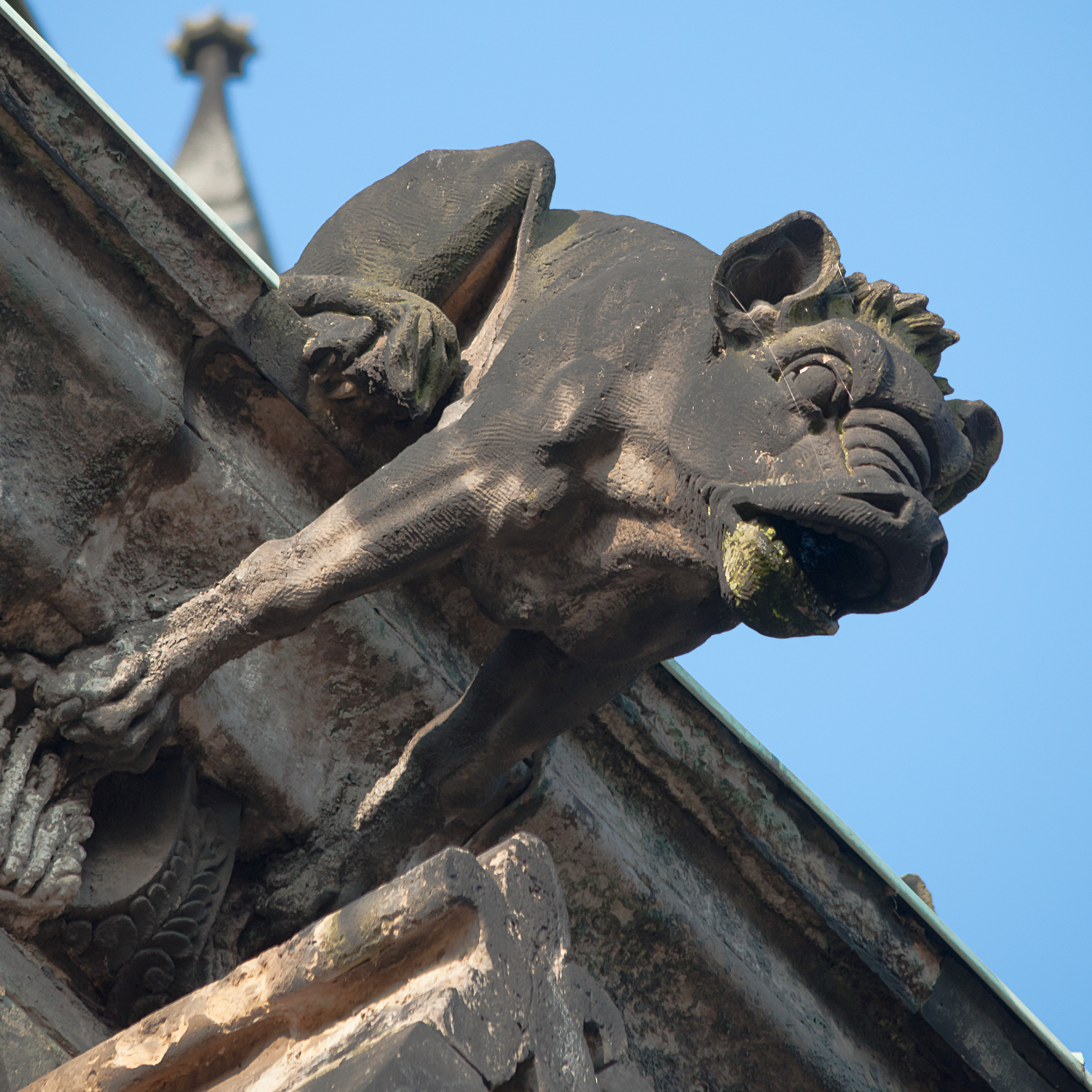 Gargoyle at Magdeburg cathedral.